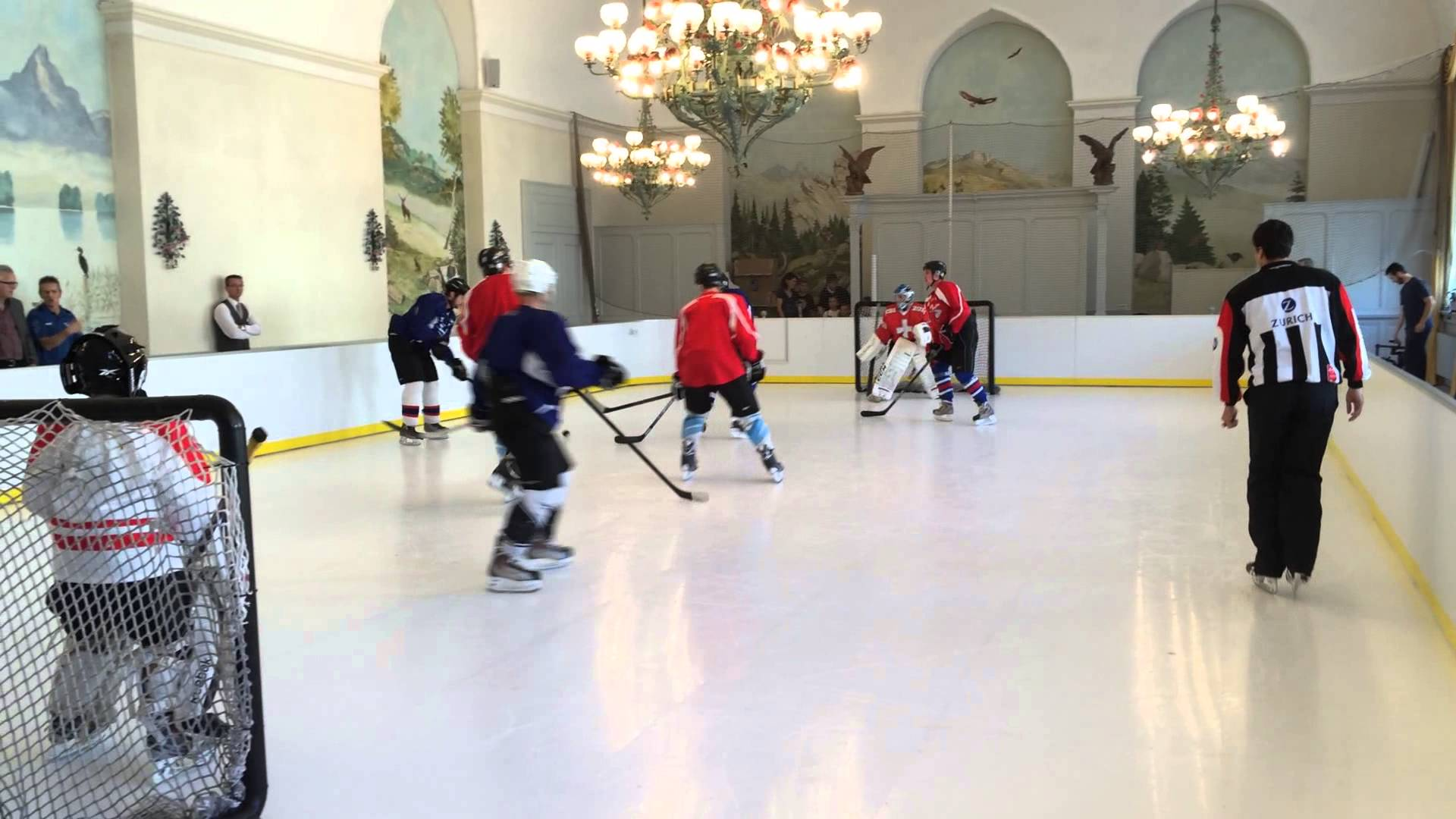 Synthetic ice rink